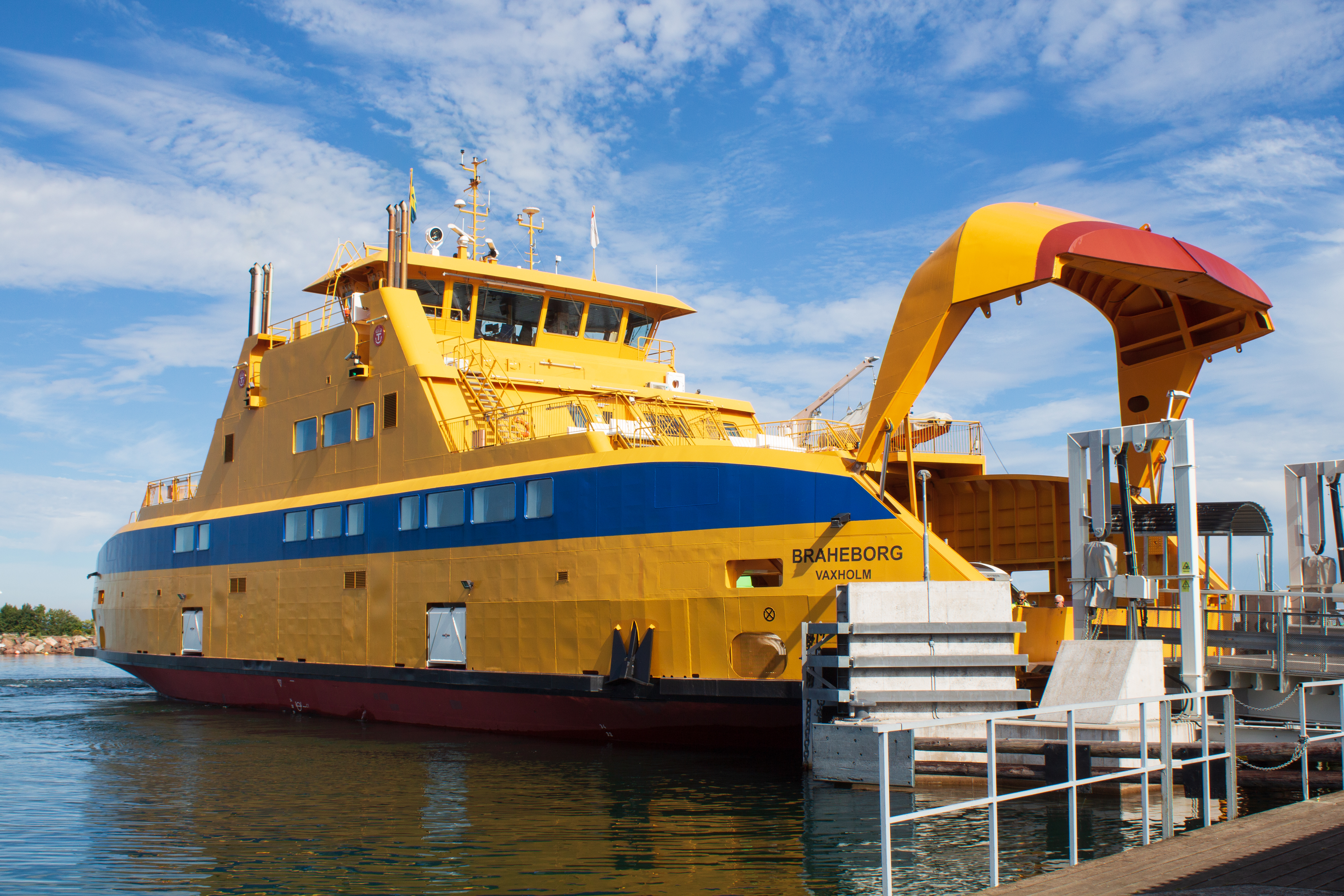 The ferry M/S Braheborg to push in Gränna harbour